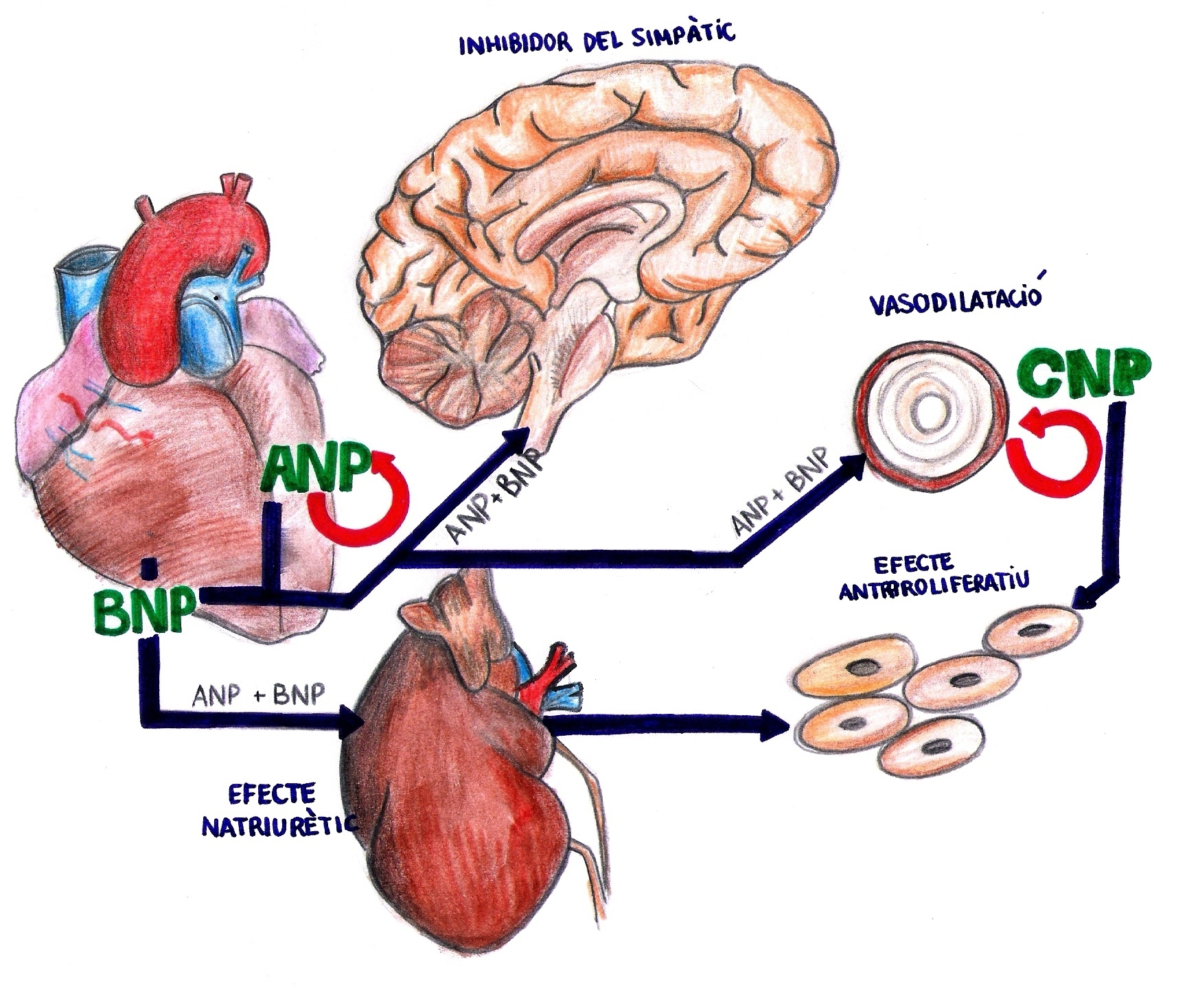 ubicació pnc